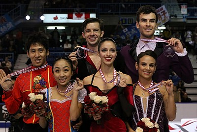 The pair skating at the 2013 Skate Canada International. From left: Sui Wenjing / Han Cong (2nd), Stefania Berton / Ondřej Hotárek (1st), Meagan Duhamel / Eric Radford (3rd).